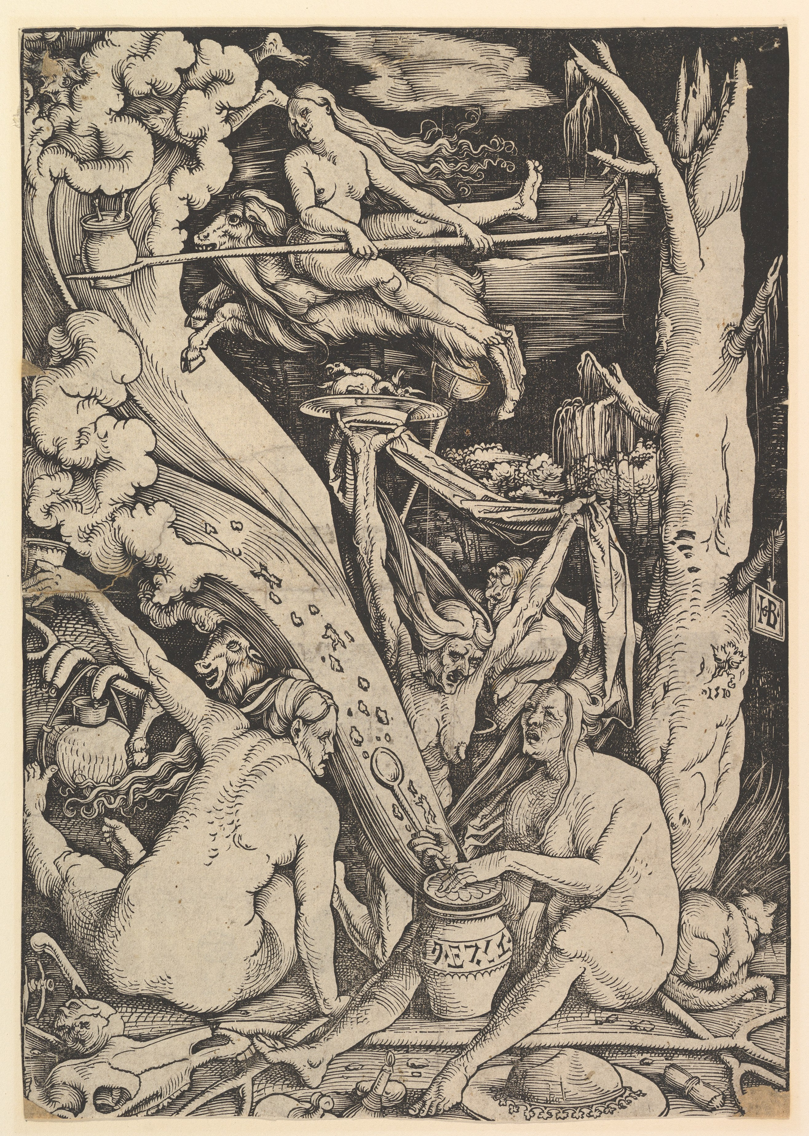 Print; Prints